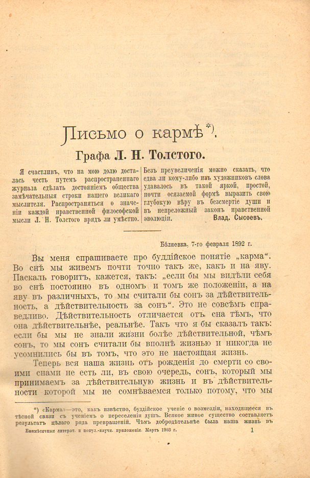 Letters of Karma by Leo Tolstoy